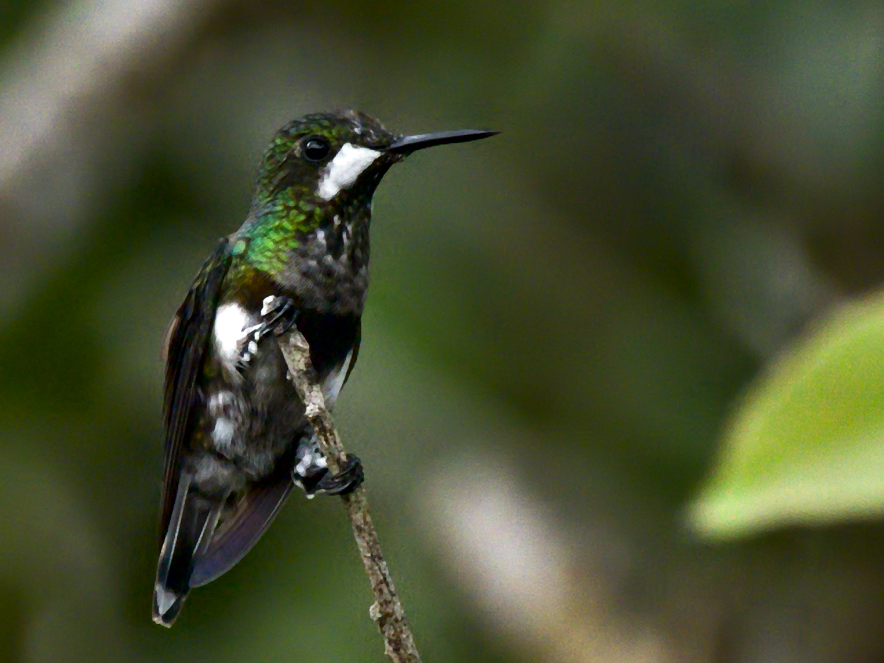 Black-bellied Thorntail perched at Comunidad Urania, Vaupés, Colombia